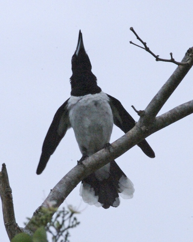 Hooded Butcherbird Cracticus cassicus Biak, Papua, Indonesia 15th. January 2008 Distribution: _Q0S6711